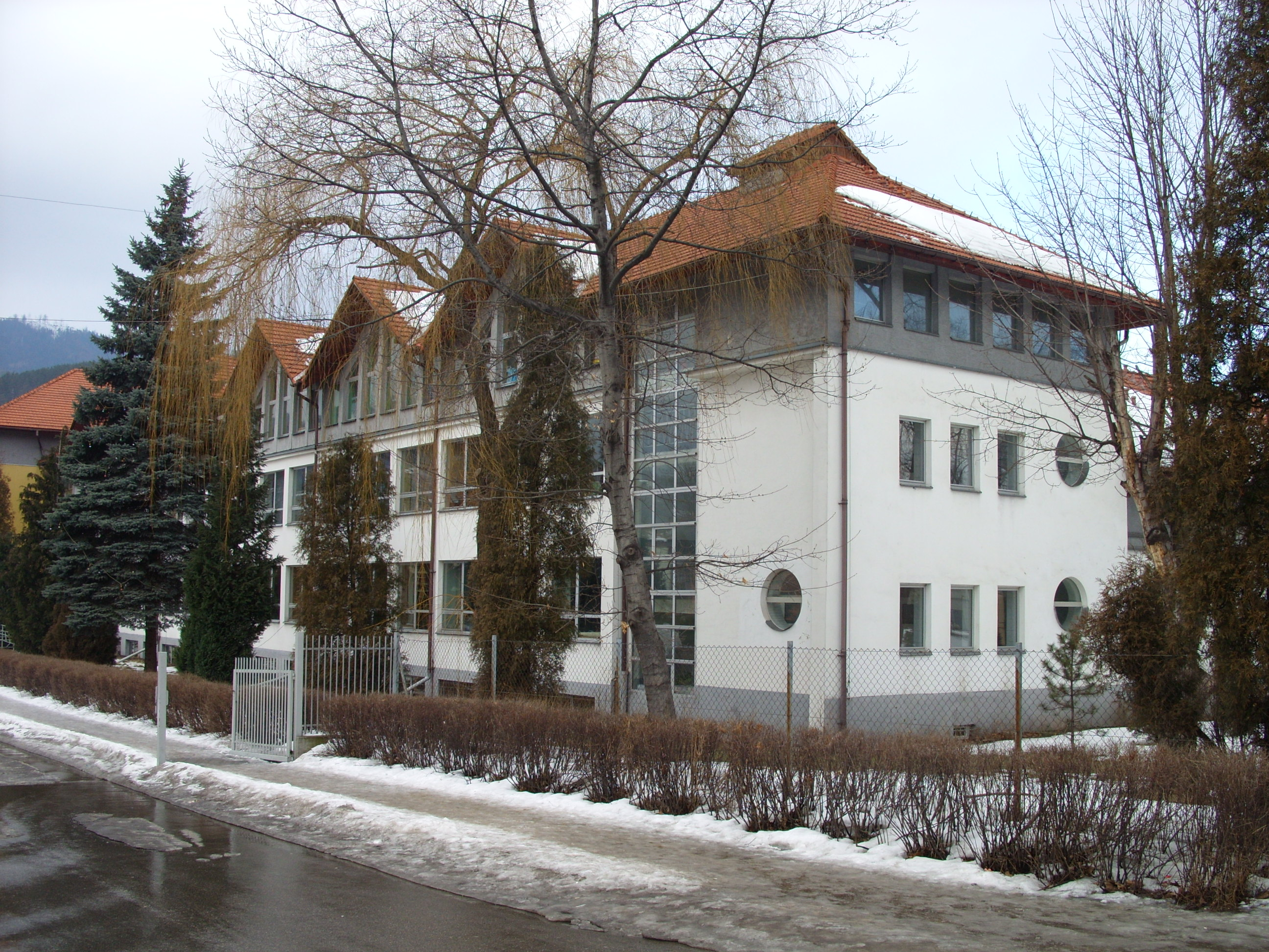 Primary School in Węgierska Górka, Poland